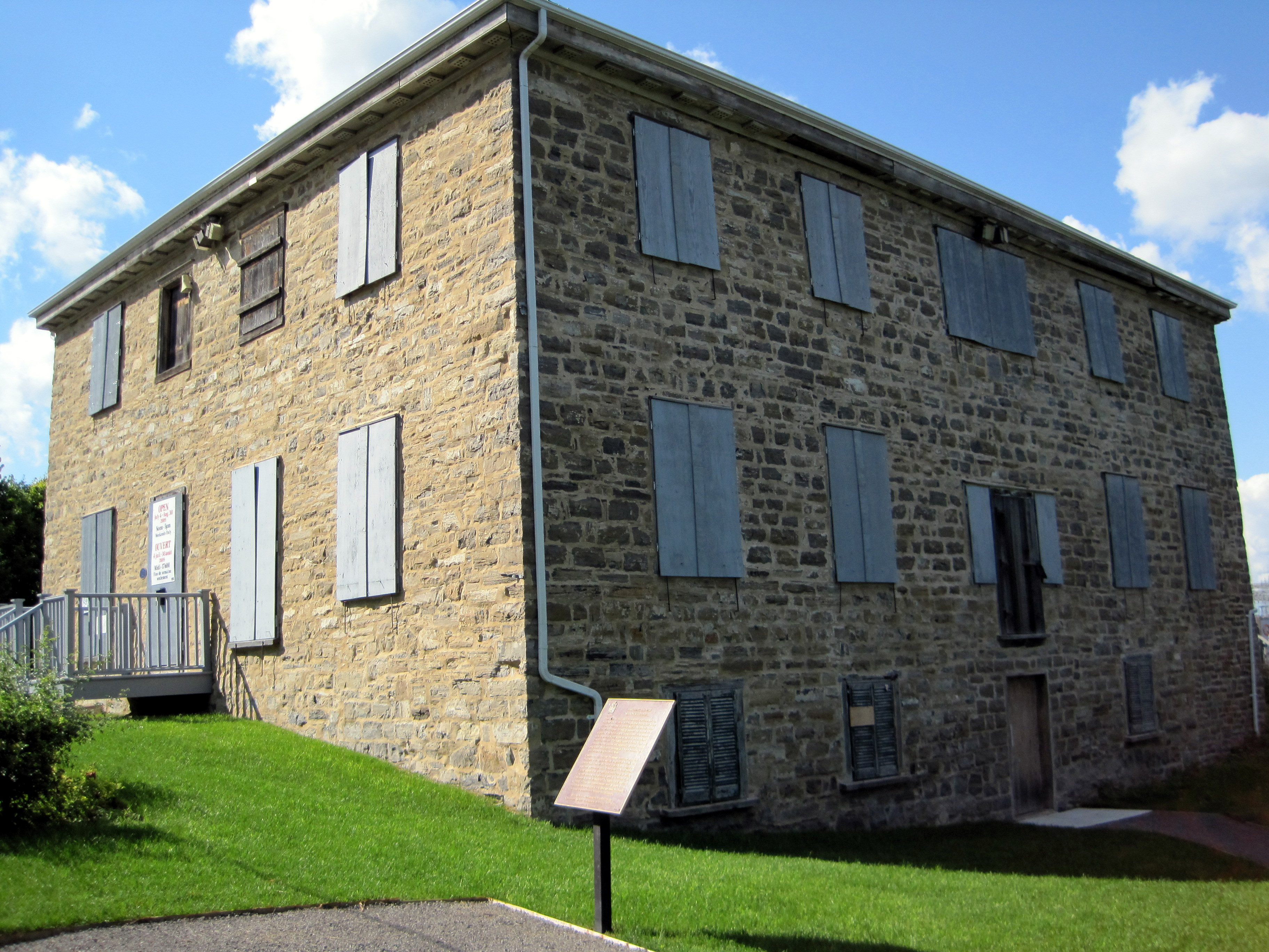 In 1813, after 19 years as a fur trader with the North West Company, John Macdonell (1768-1850) retired to Hawkesbury Township with his wife, Magdeleine Poitras - a Métis born on the Manitoba section of the Qu'Appelle River - and their children. Macdonell's home, known as Poplar Villa, is a graceful adaptation of the Palladian style. It served as a centre for his milling, general merchandising, warehousing and freight-forwarding business. Using the commercial instincts he had honed in the competitive fur trade, Macdonell opened a general store in Pointe Fortune, served as a freight forwarder in the movement of goods from his property to Lachine, near Montreal, and sponsored the building of the Ottawa – the first steamboat on the Ottawa River. He also made noteworthy contributions to the region's public life as a judge in the Ottawa district (1816-25), and later as a member of the Upper Canada House of Assembly. Macdonell died in Pointe Fortune in 1850. In 1882, the Williamson family bought the house. It remained in the Williamson family until the early 1960s. The Ontario Heritage Trust acquired it in 1978 to save it from demolition, and conducted extensive architectural and archaeological investigations on the property.